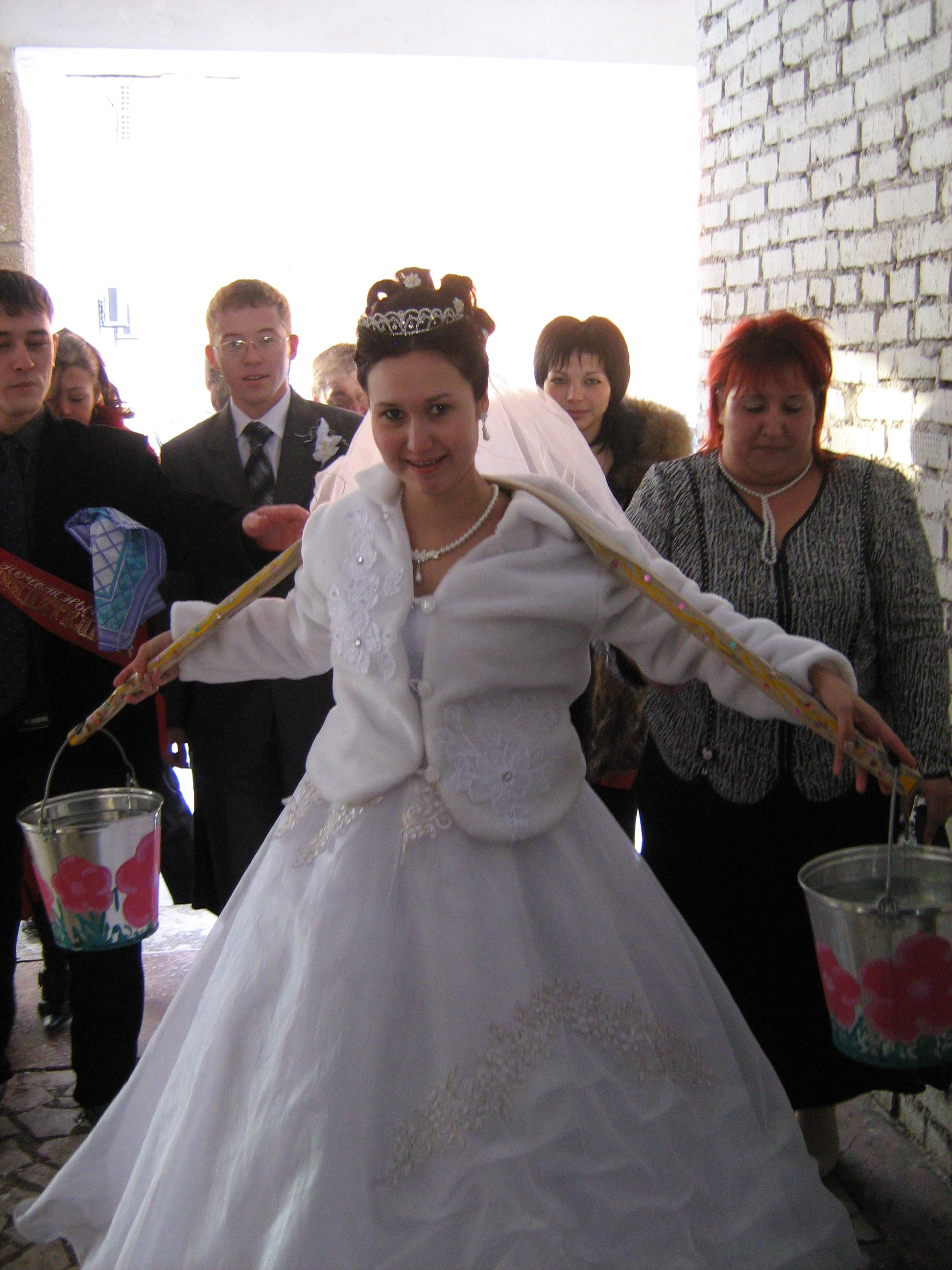 Һыу юлы